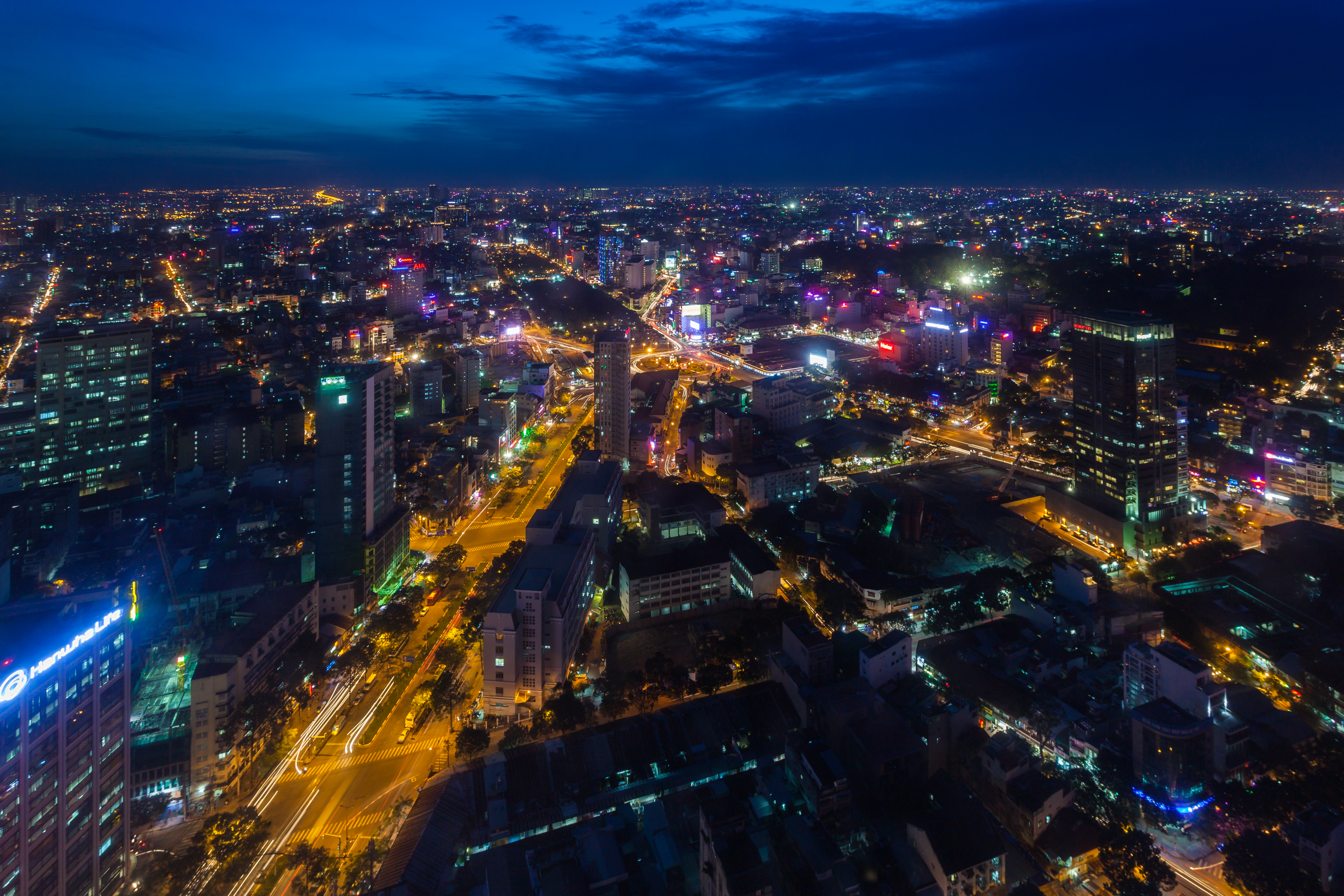 View of Ho Chi Minh City from Bitexco Financial Tower, Vietnam